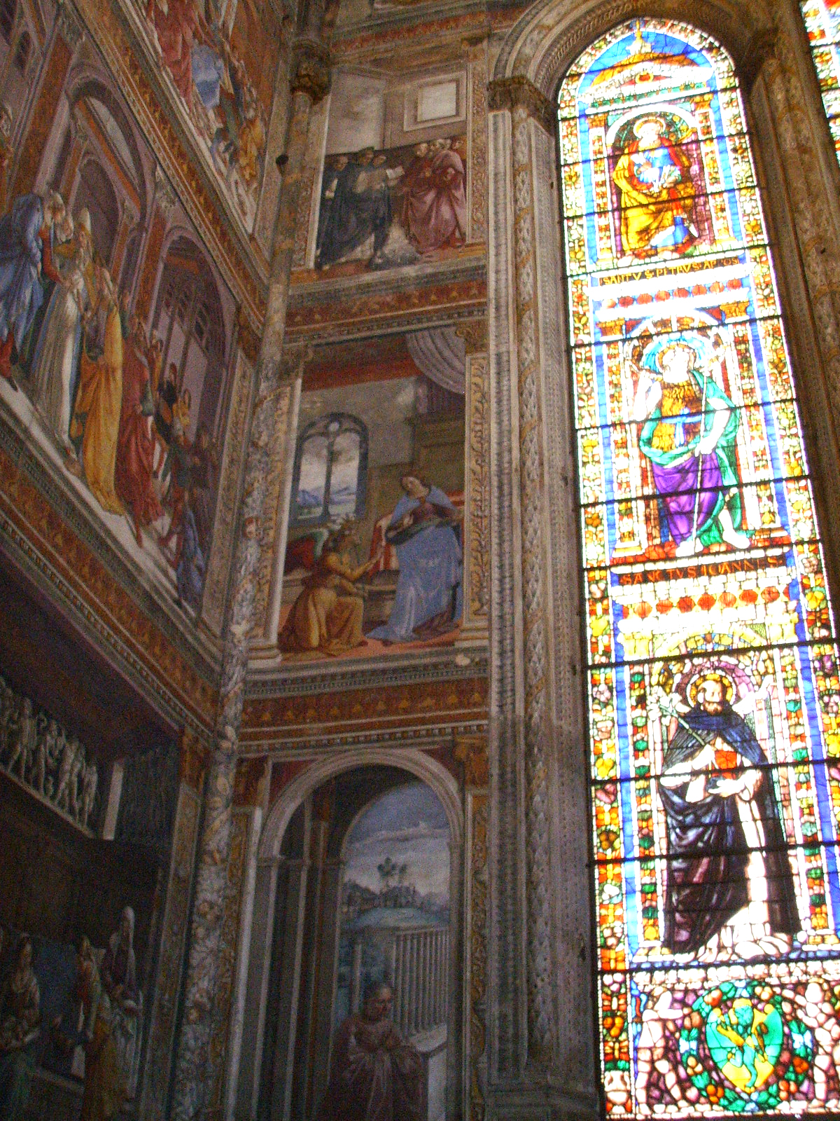 Santa Maria Novella church in Florence (Italy), Tornabuoni Chapel, frescos by Domenico Ghirlandaio.